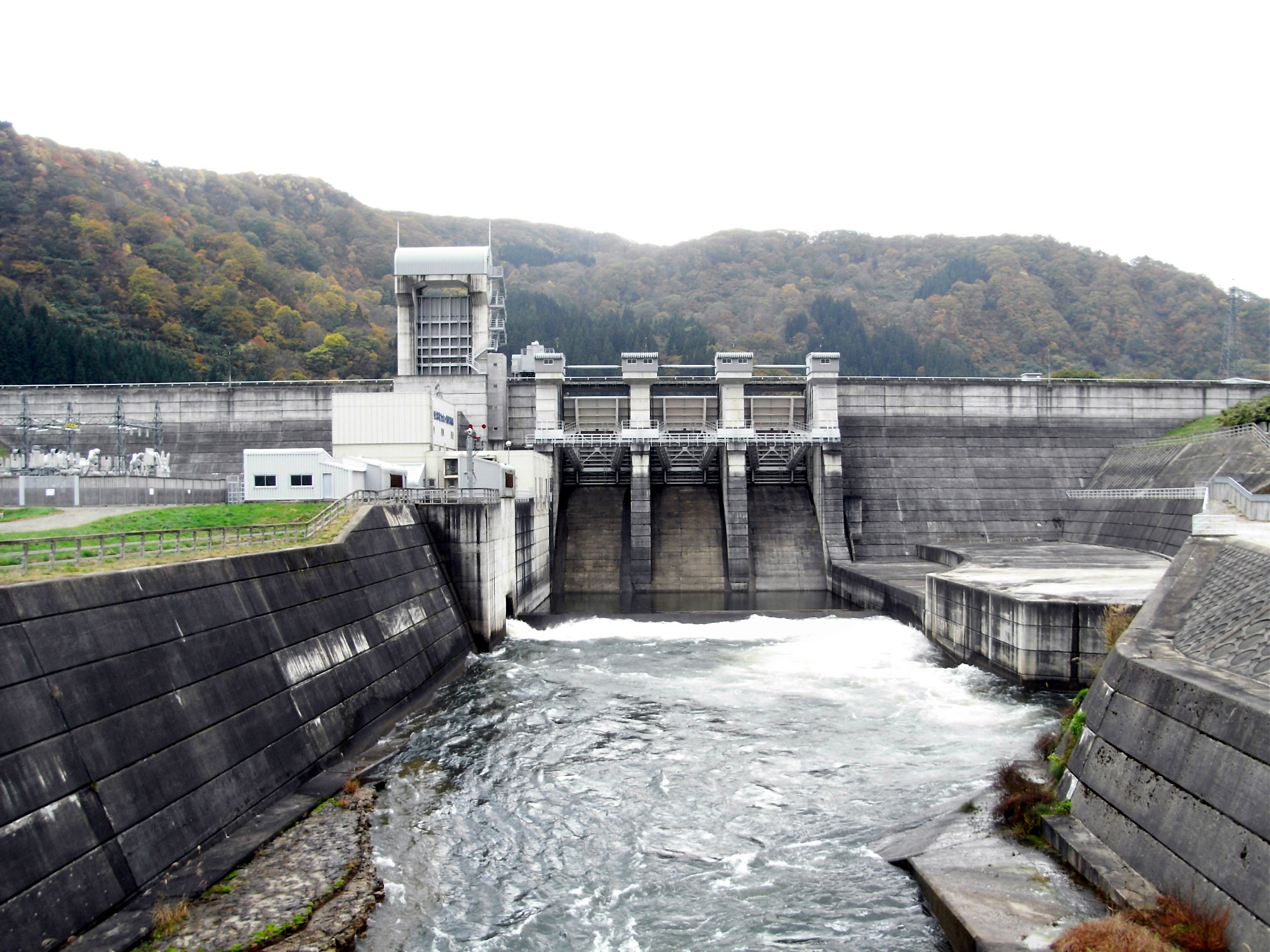 Mizugatoro Dam(Sagaegawa river/Yamagata Pref./Japan)